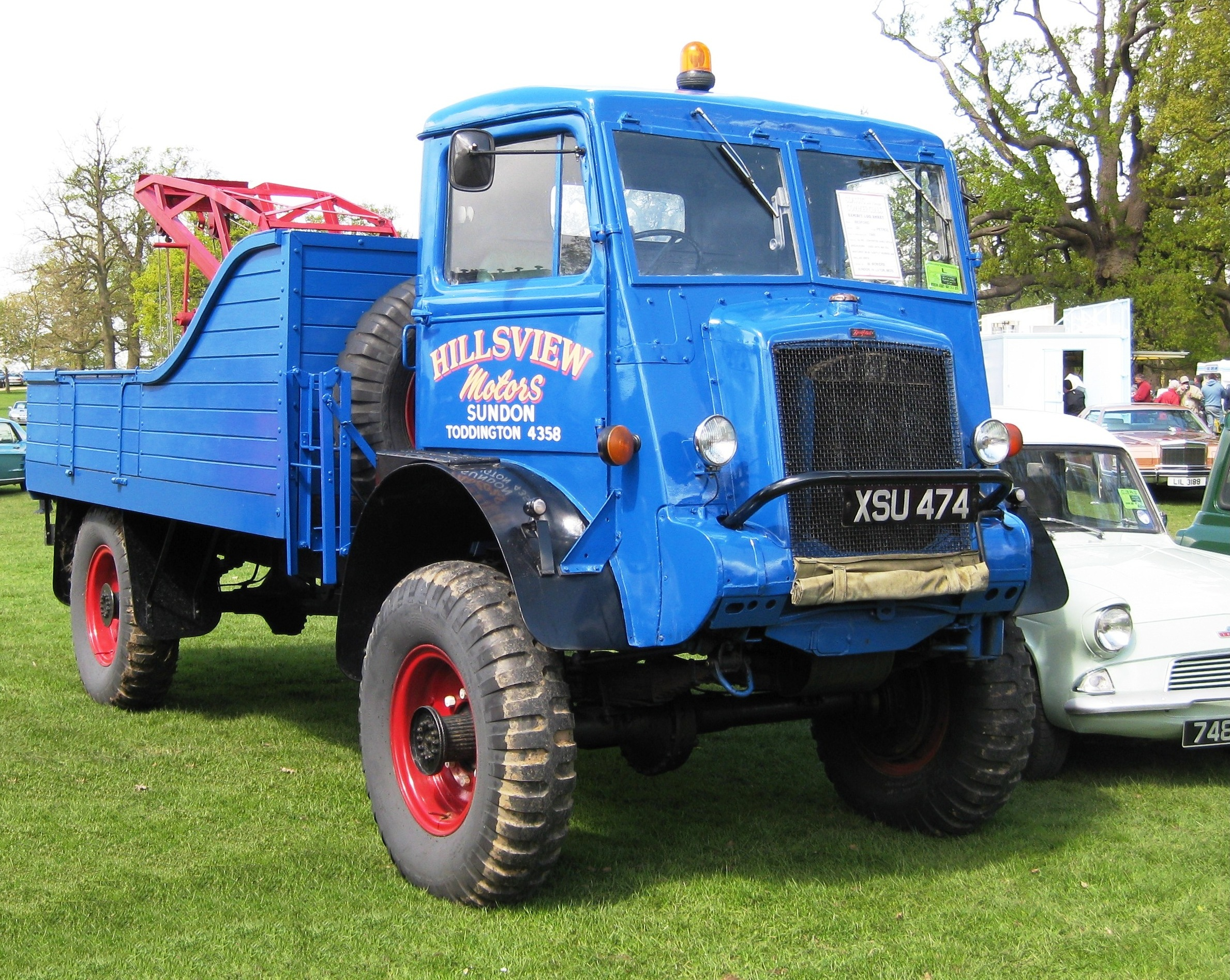 Bedford QL based breakdown truck at a classic car (and truck...) show in Bedfordshire